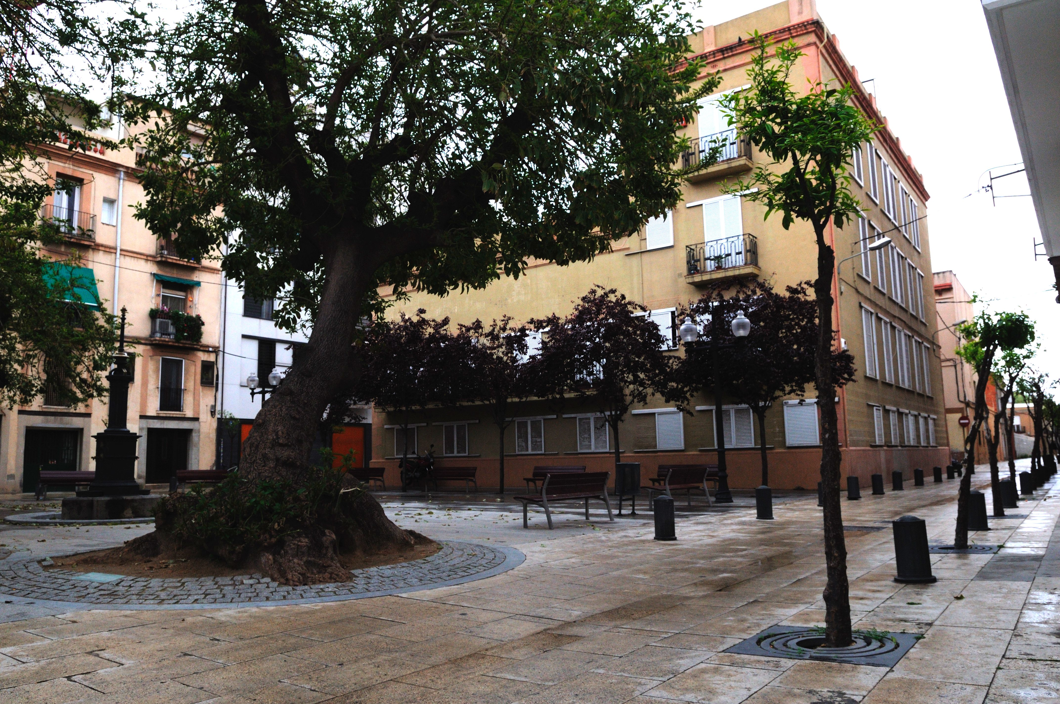 Plaza Prim in Poblenou, Barcelona, Catalonia, Spain with old trees and fountain